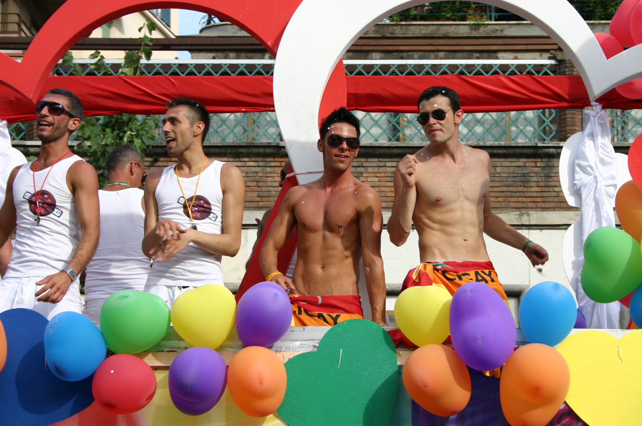 The float of Arcigay-Milan at the National Gay Pride march in Rome, on June 16 2007. Picture by Giovanni Dall'Orto.